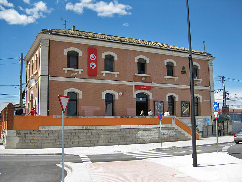 Alzira station, Valencian Country, Spain